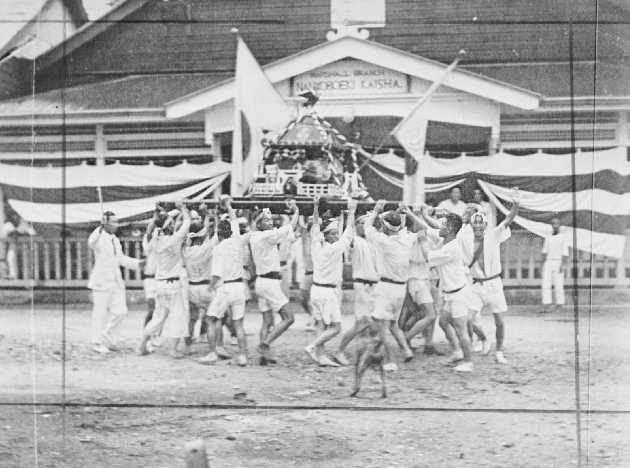 Japanese festival in Jaluit (pre-WWII)